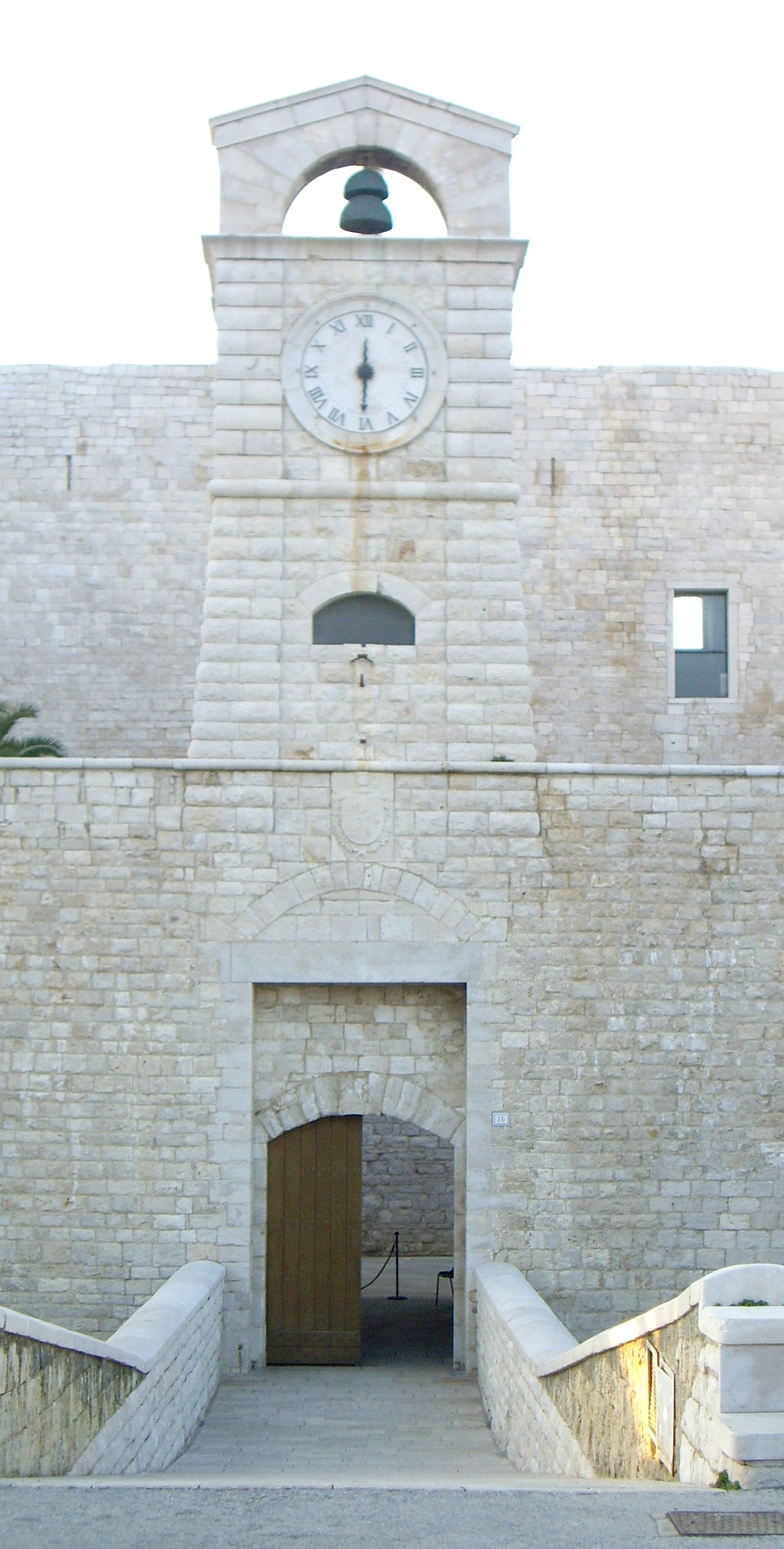 Castle of Trani, entrance portal.